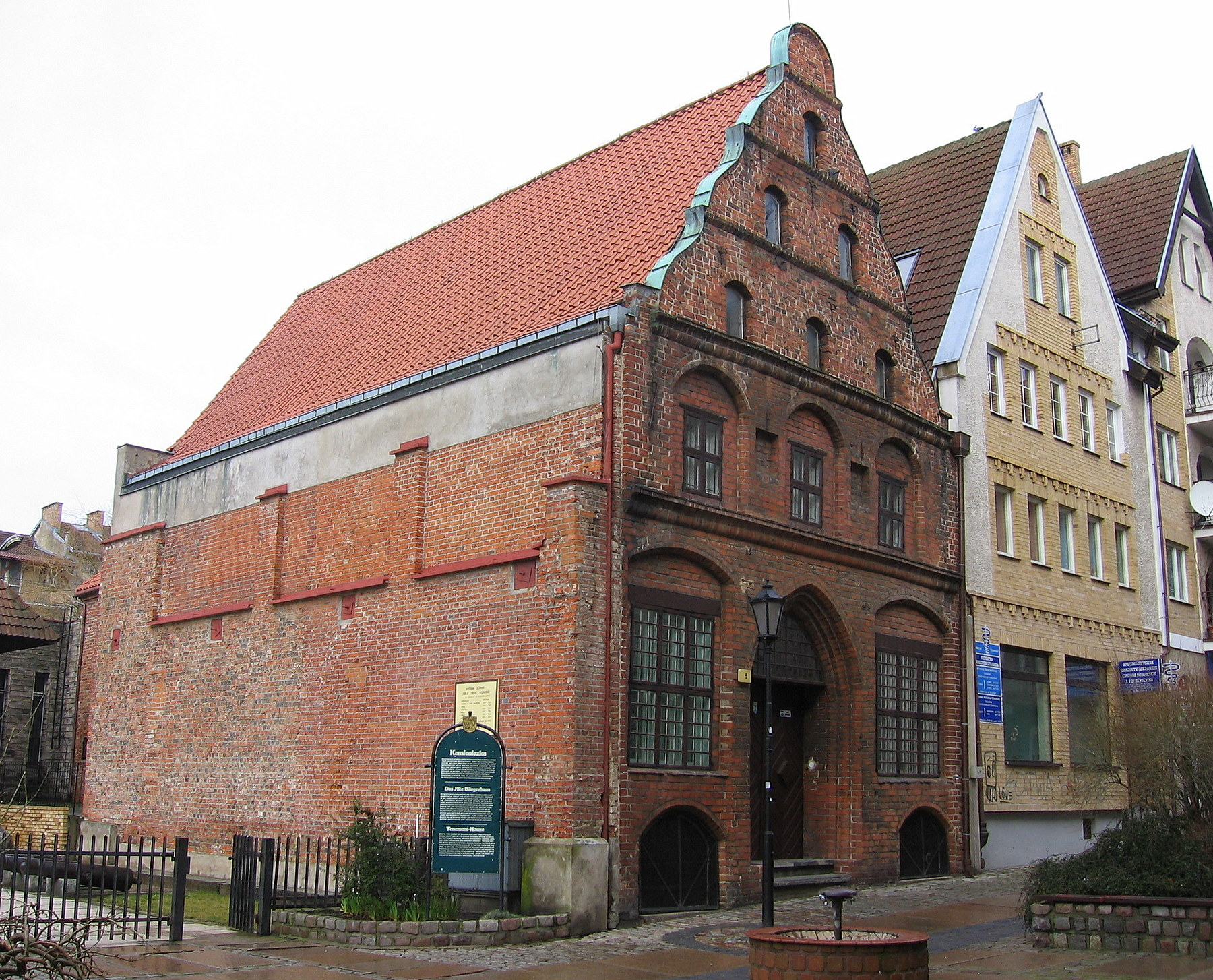 Old tenement house in Kołobrzeg (ul. ppor. Emilii Gierczak)